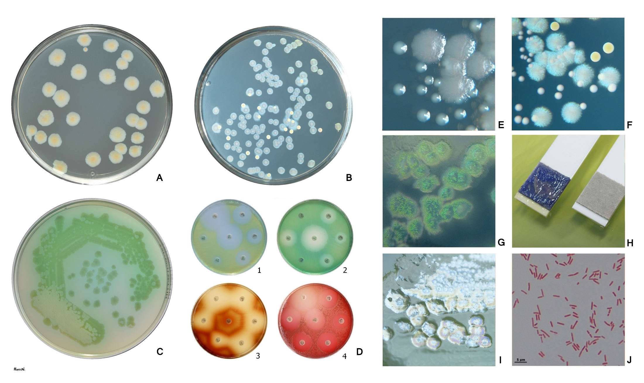 Pseudomonas aeruginosa is a nonfastidious, Gram-negative (Fig. J), oxidase postive (Fig. H), nonfermenting rod. P. aeruginosa produces pyoverdin, a water-soluble yellow-green pigment (Fig. A, C, D1, D2). Many P. aeruginosa strains also produce the blue pigment pyocyanin (Fig. B, F). When pyoverdin combines with pyocyanin, the bright green color characteristic of P. aeruginosa is created (Fig. C). Some strains rarely produce other pigments: brown pyomelanin (D3) or red pyorubrin (D4). For the isolation and presumptive identification from clinical and environmental samples a selective agar containing cetrimide can be used (Fig. G). Fig. A, B Trypticase soy agar (B: P.aeruginosa + S.aureus), Fig. C, D, I Mueller-Hinton agar Fig. E Larger colonies of P. aeruginosa and smaller colonies of Enterococcus faecalis on tripticase soy agar. Reflected light. Fig. F Bluish colonies of P. aeruginosa, yellow colonies of S. aureus and white colonies of Enterococcus faecalis on trypticase soy agar. Fig. I Plaques are frequently found in freshly isolated strains, especially in the area of confluent growth. In some strains these are caused by phage, in others by bacteriocins.